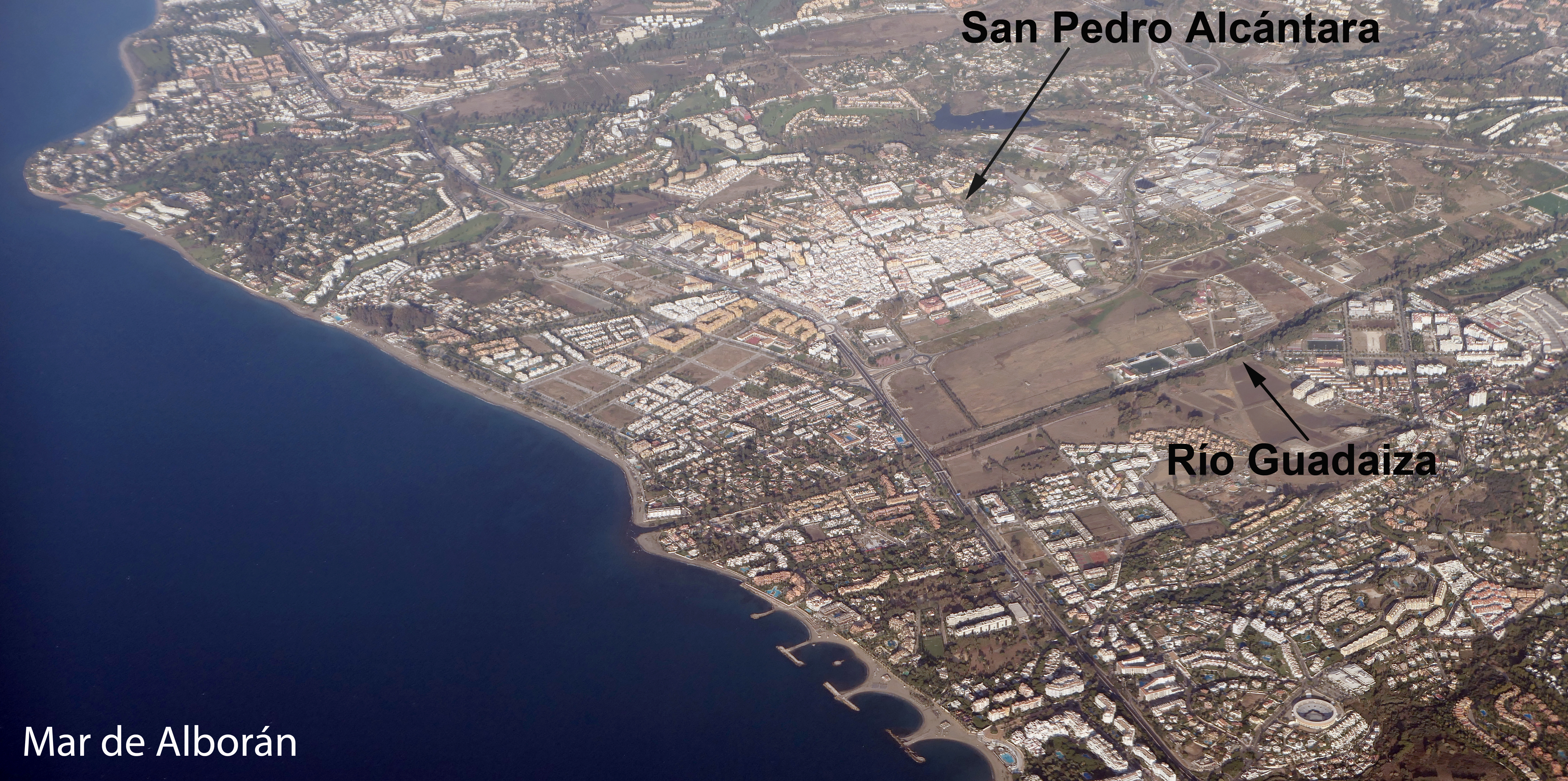 An aerial view of San Pedro Alcántara, near Marbella in Andalusia, taken in September.